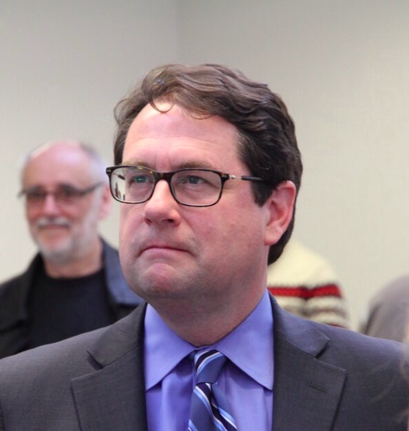 Bernard Drainville, député de Marie-Victorin.